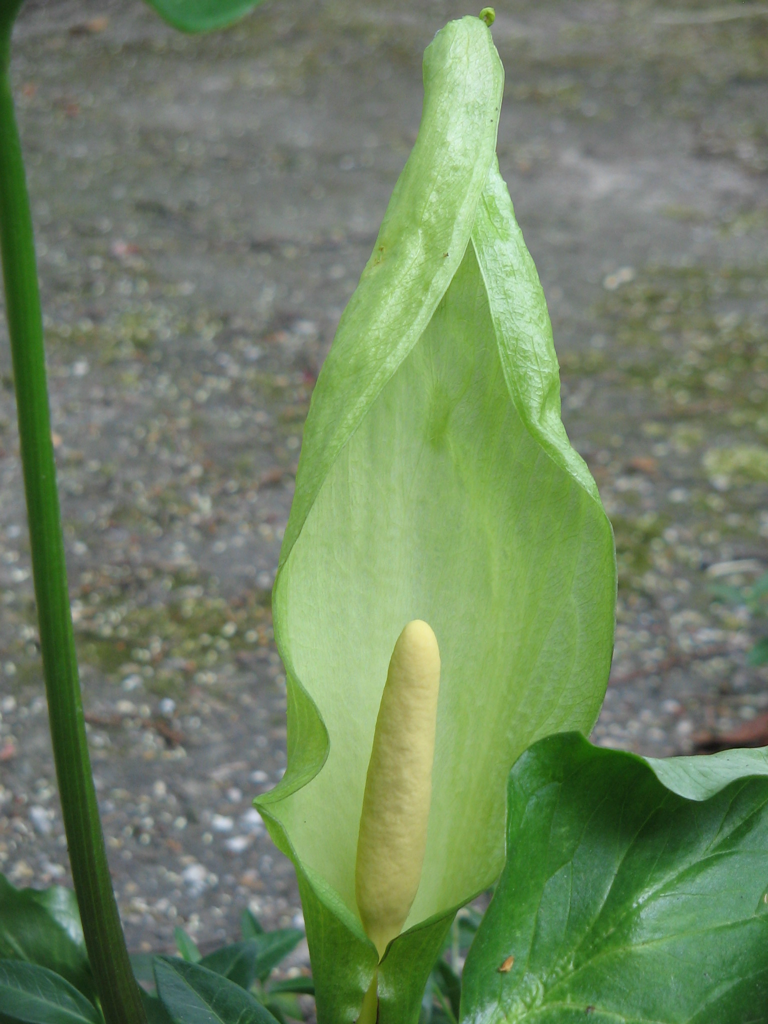 Arum italicum inflorescence